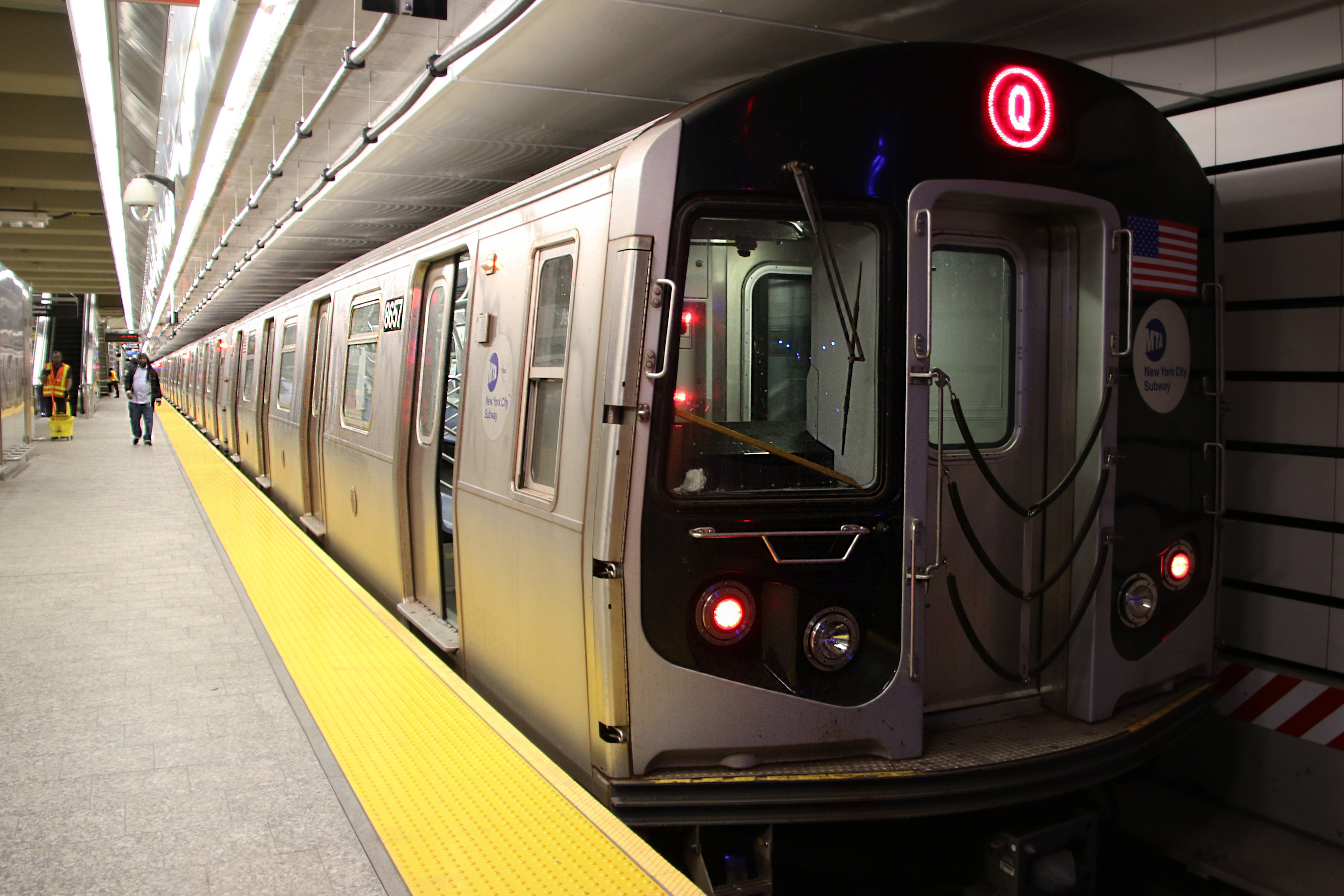 MTA NYC Subway Q train at 96th St